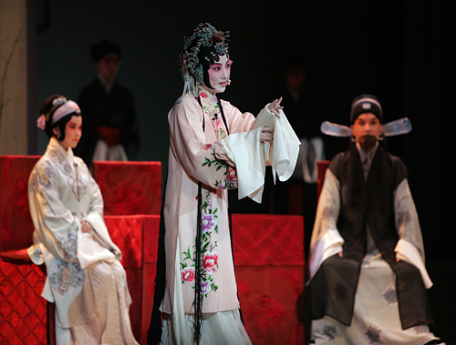 Kunqu performance at the Peking University